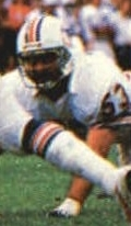 Miami Dolphins' linebacker Jay Brophy pictured in a defensive play against the against the New England Patriots in the 1985 AFC Championship game on January 12, 1986.